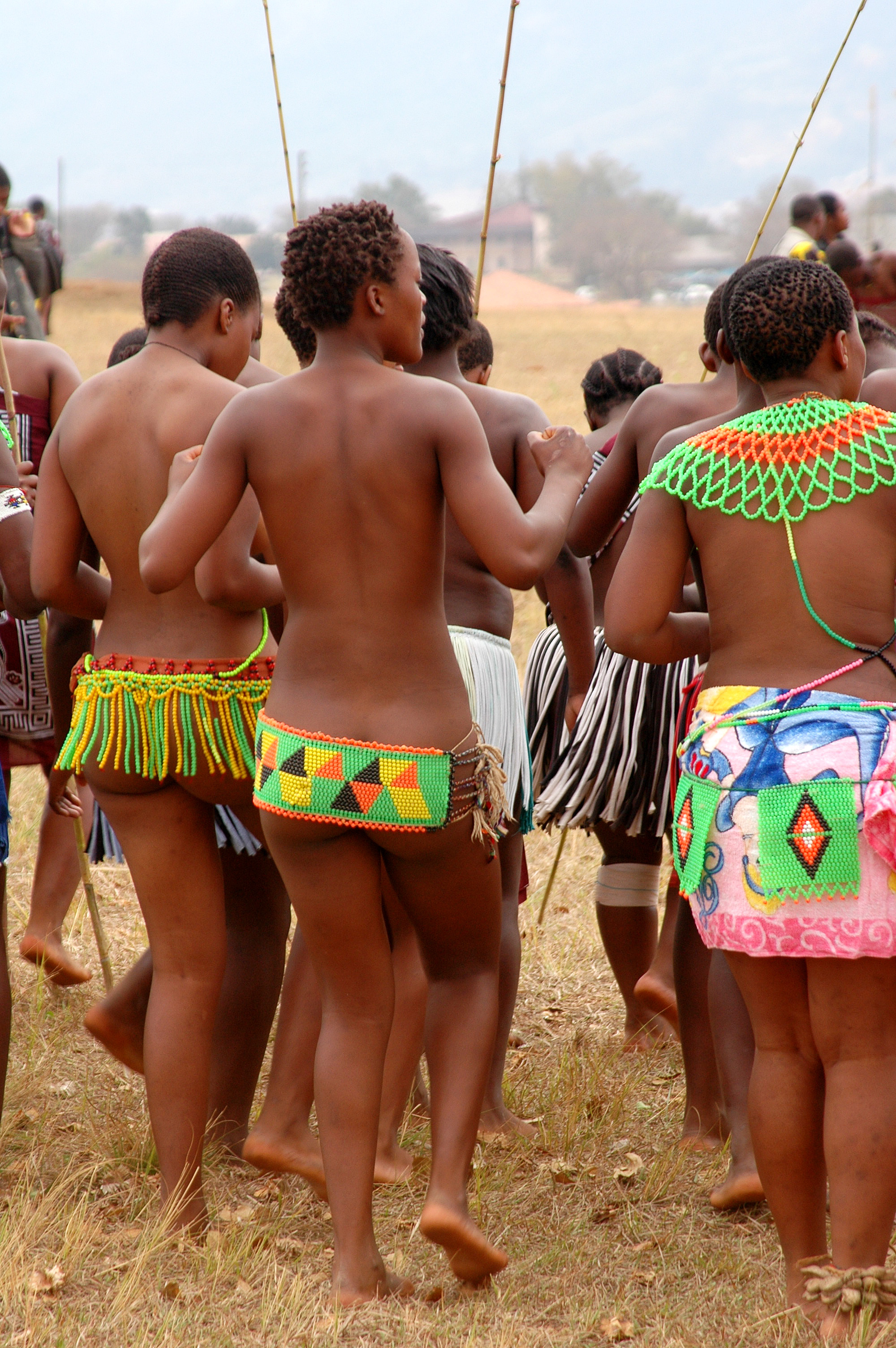 The Reed Dance Festival 2006